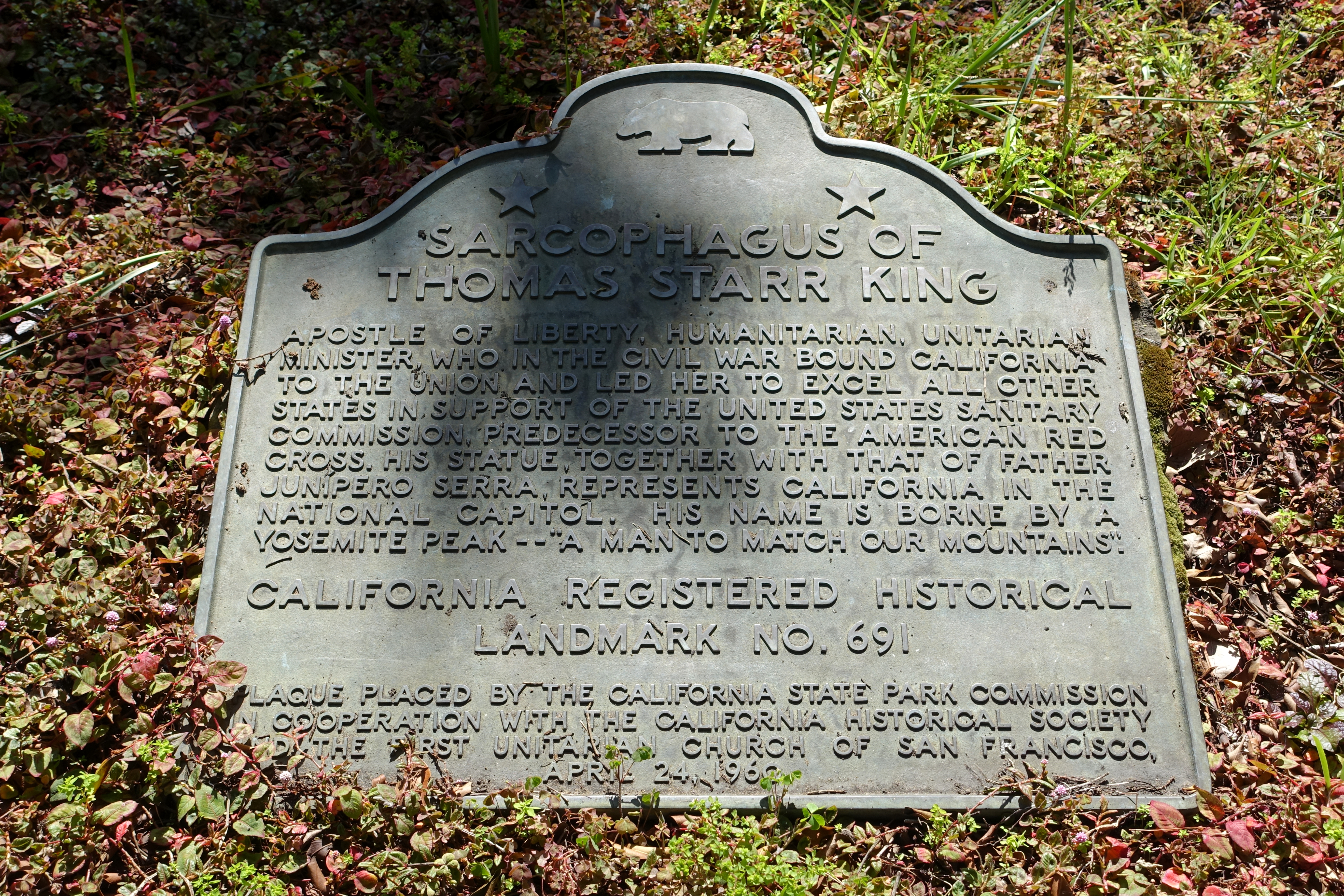 Sarcophagus of Thomas Starr King - San Francisco, California, USA.